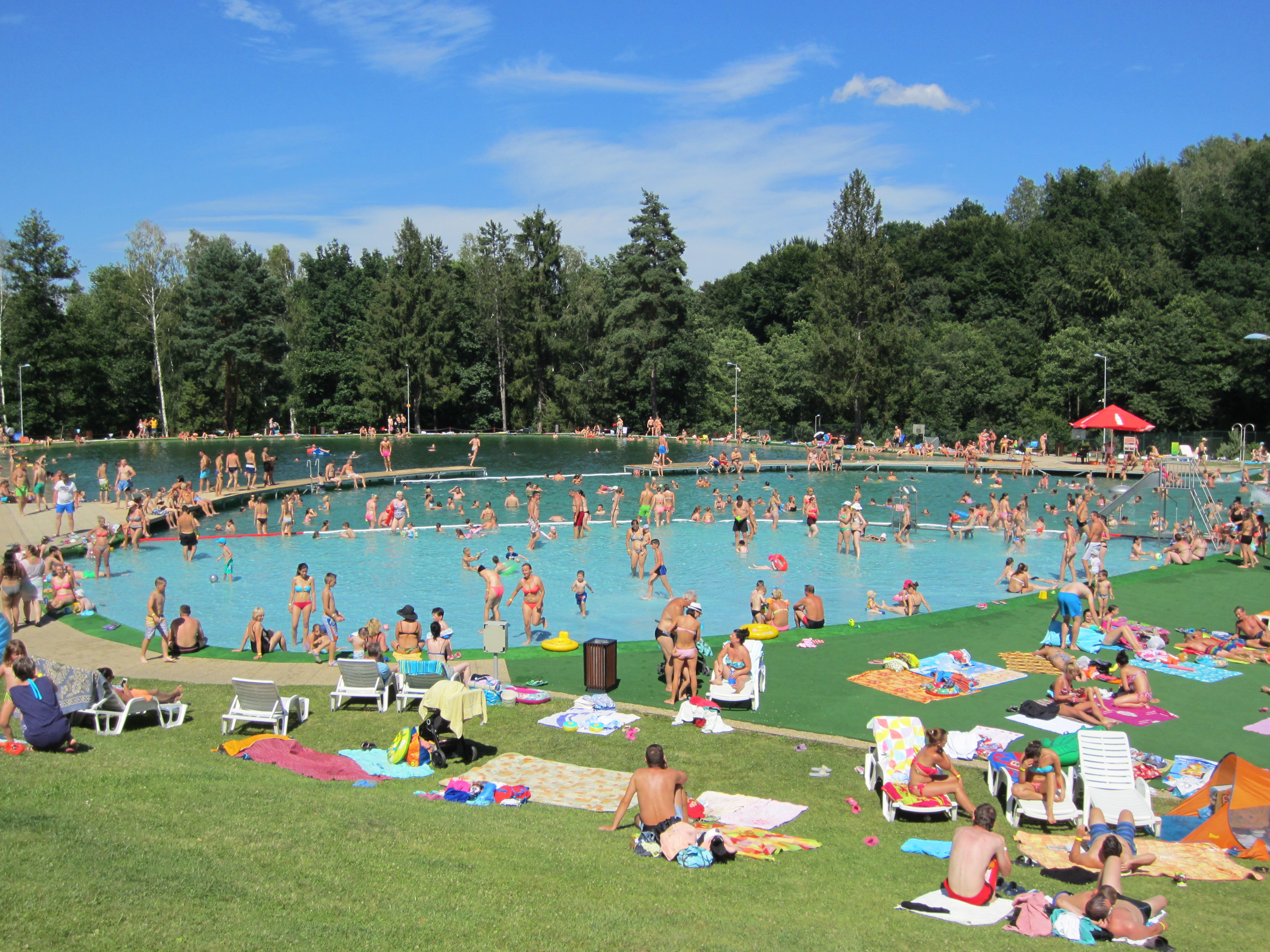 Biokúpalisko Sninské rybníky in July